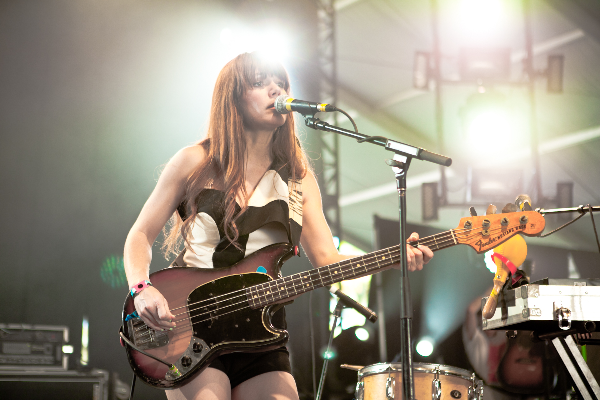 Jenny Lewis during a performance of Jenny & Johnny at the Coachella Festival.